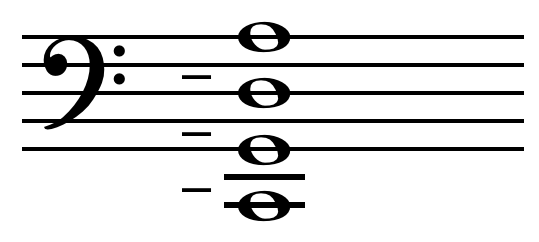 Cello open strings, tuning shown.